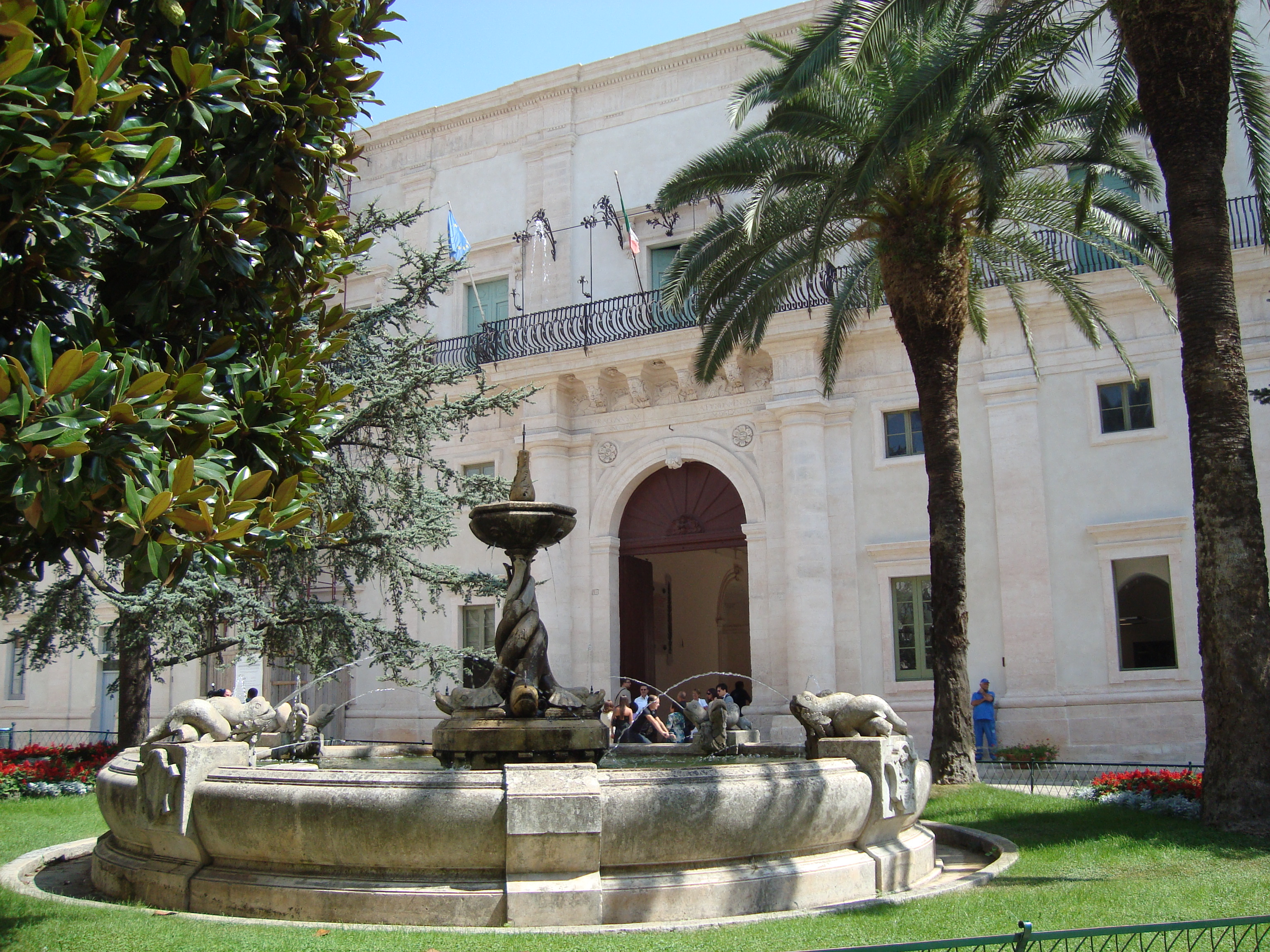 The Palazzo Ducale, actual city hall of Martina Franca, Apulia